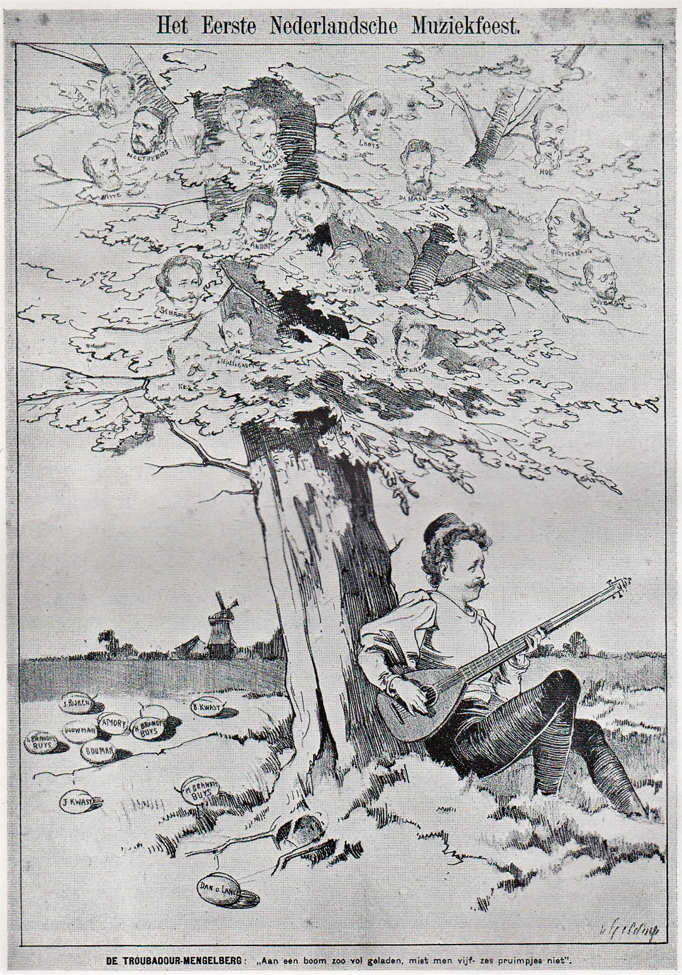 Cartoon published in 1902 illustrating Amsterdam music event 1902